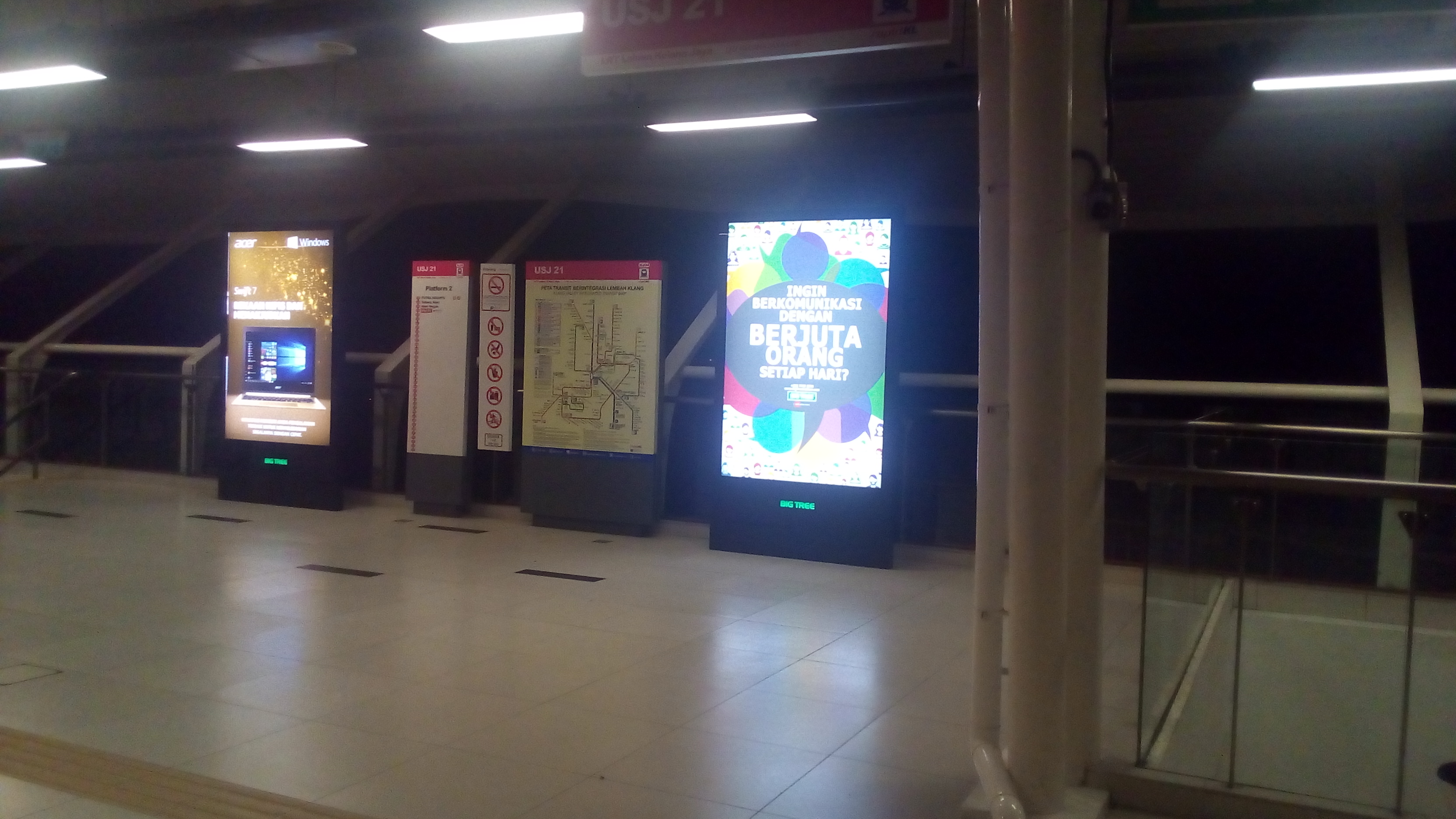 USJ21 LRT Station